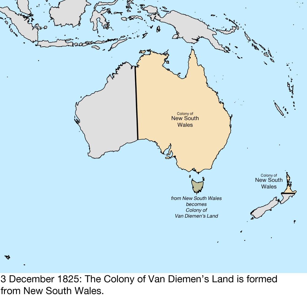 Map of the change to the founding colonies of Australia on 3 December 1825